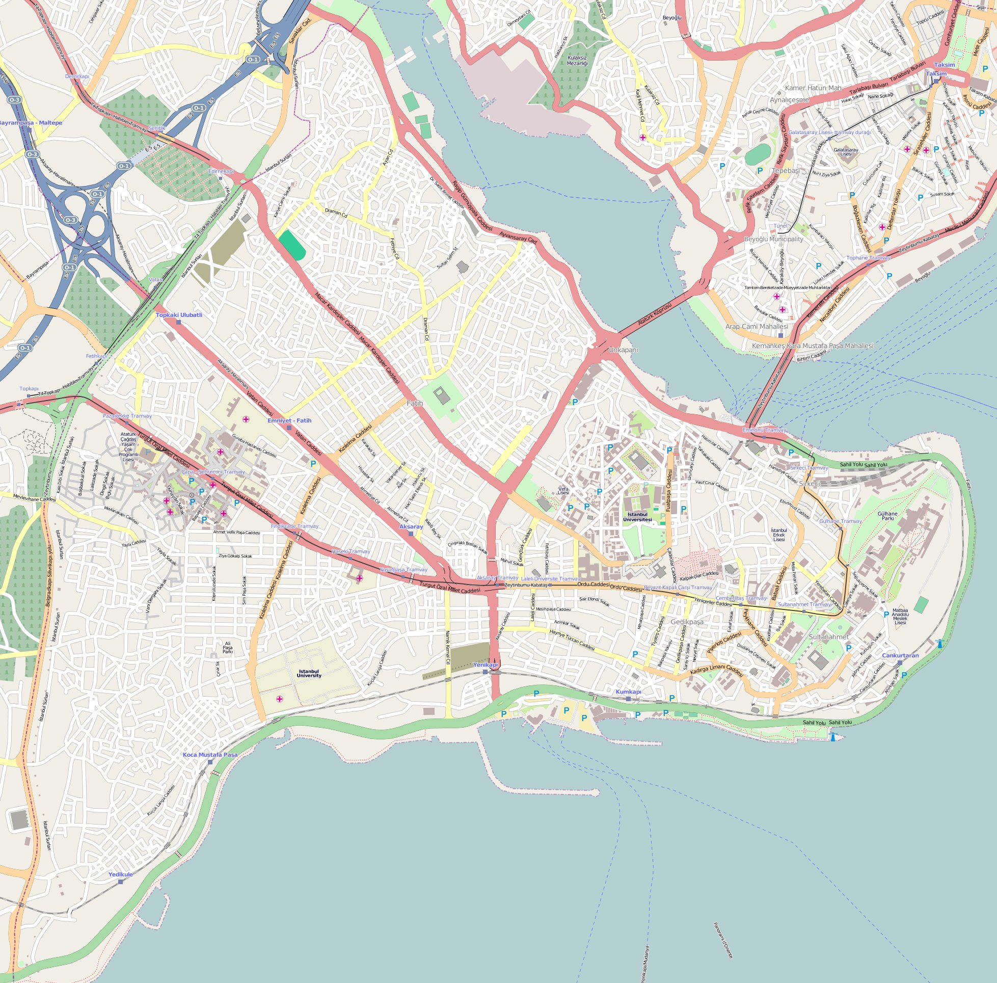 Location map of Fatih district of Istanbul. Borders coordinates: N: 41.0411 W: 28.9181 E: 28.9895 S: 40.988